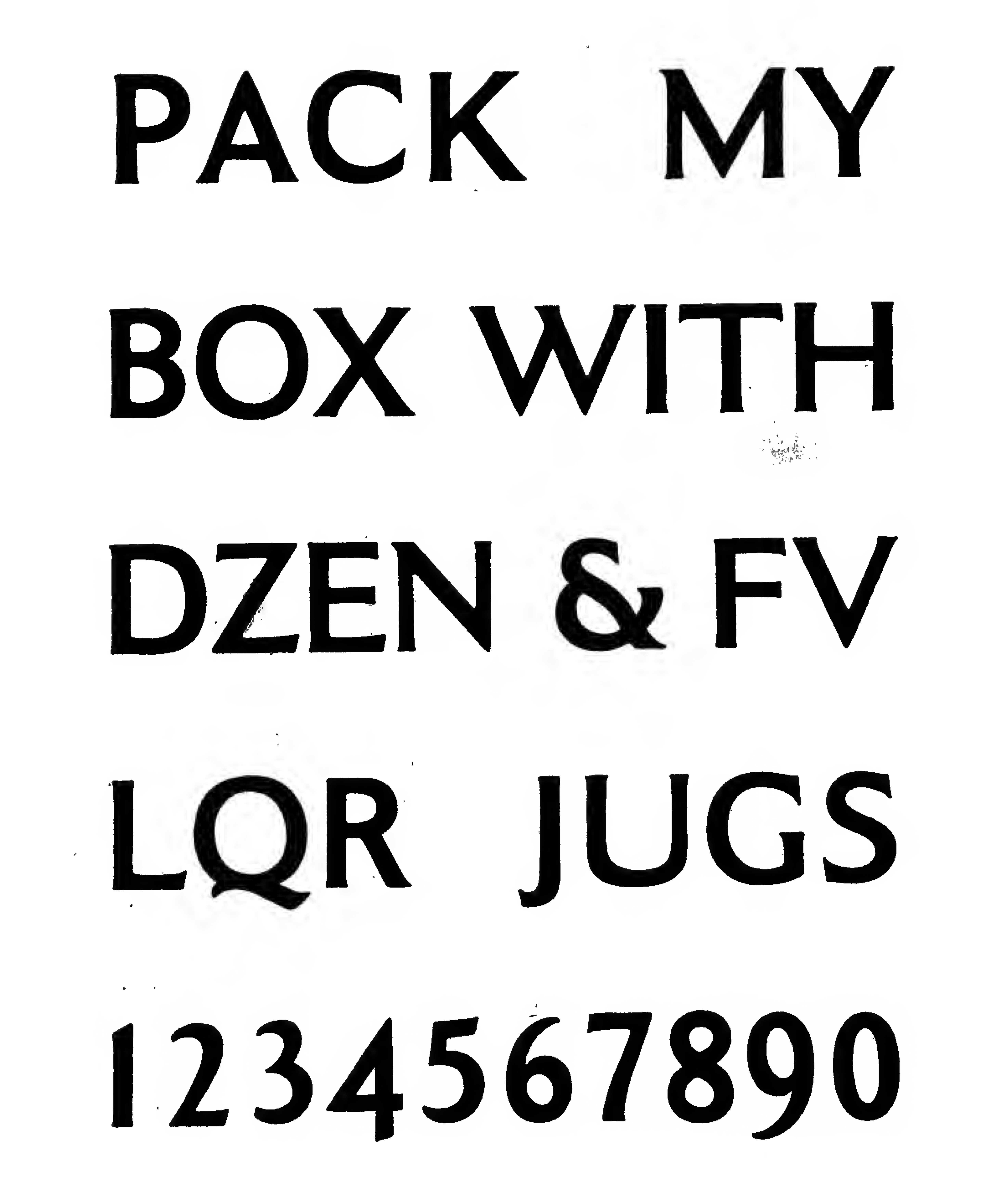 Goudy's Lining Gothic design of 1921, a fascinating early humanist sans-serif design. It has not been digitised and was never released in metal type. Shown in Goudy's Elements of Lettering book of 1922, which is in the public domain.